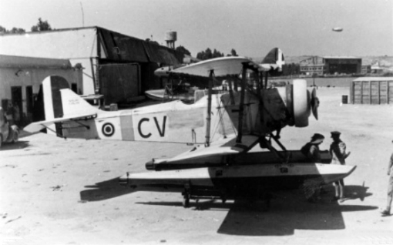 Augusta, Sicily, Italy. c. September 1943. Airmen of No. 3 Squadron RAAF, an all Australian Fighter Bomber Squadron, looking over an Italian Breda Ba.25 seaplane which was captured intact when the port of Augusta was occupied by Allied Forces. The Breda was flown by the Squadron and later handed over to the Free French.